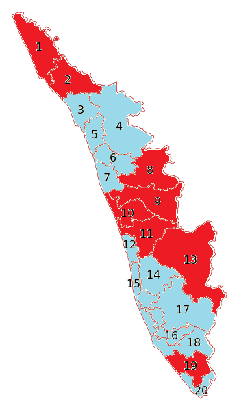 Map of Kerala Lok Sabha constituencies showing the results of 2014 General Election as UDF vs LDF with their respective colors.